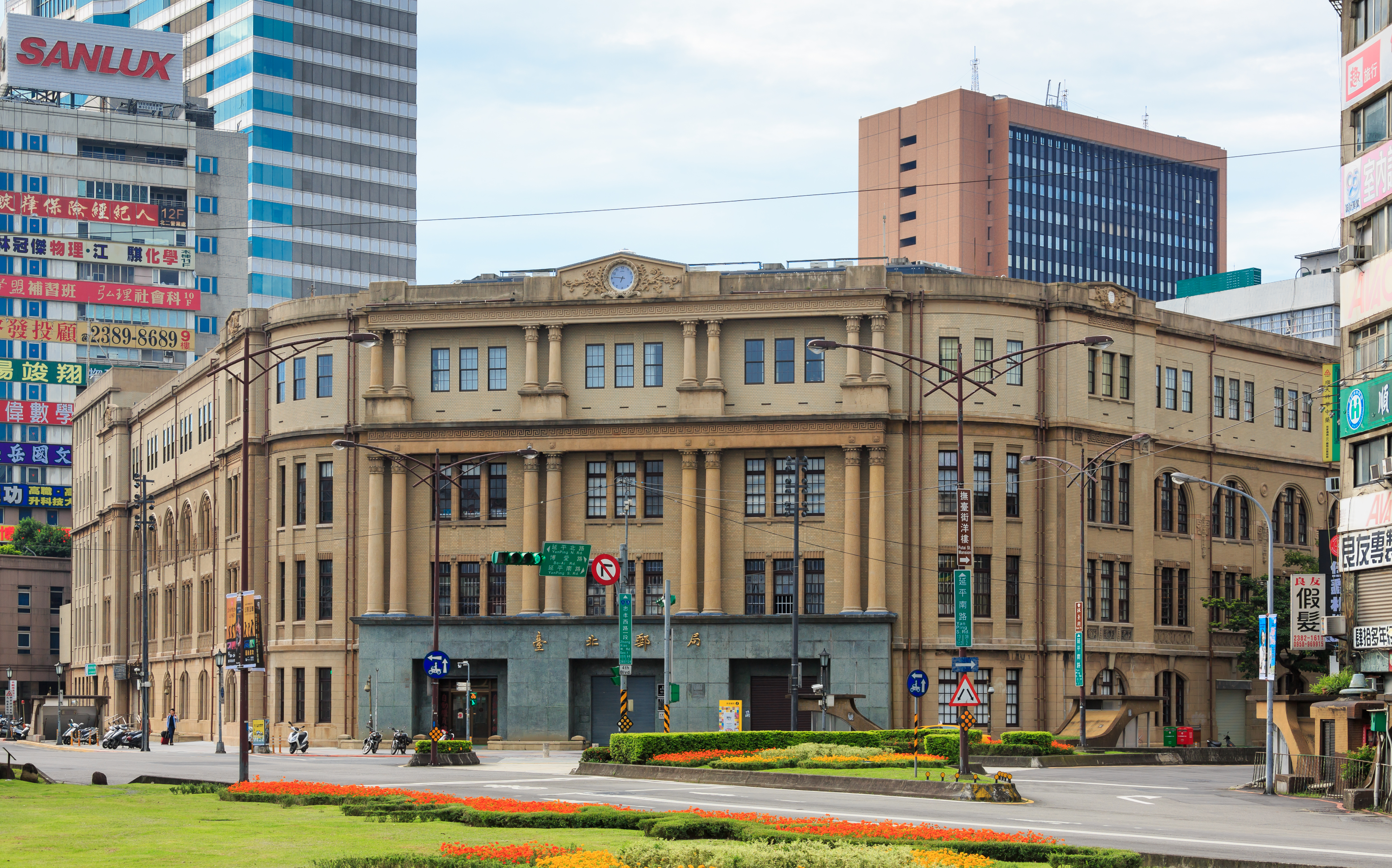 Taipei, Taiwan: Taipei Post Office